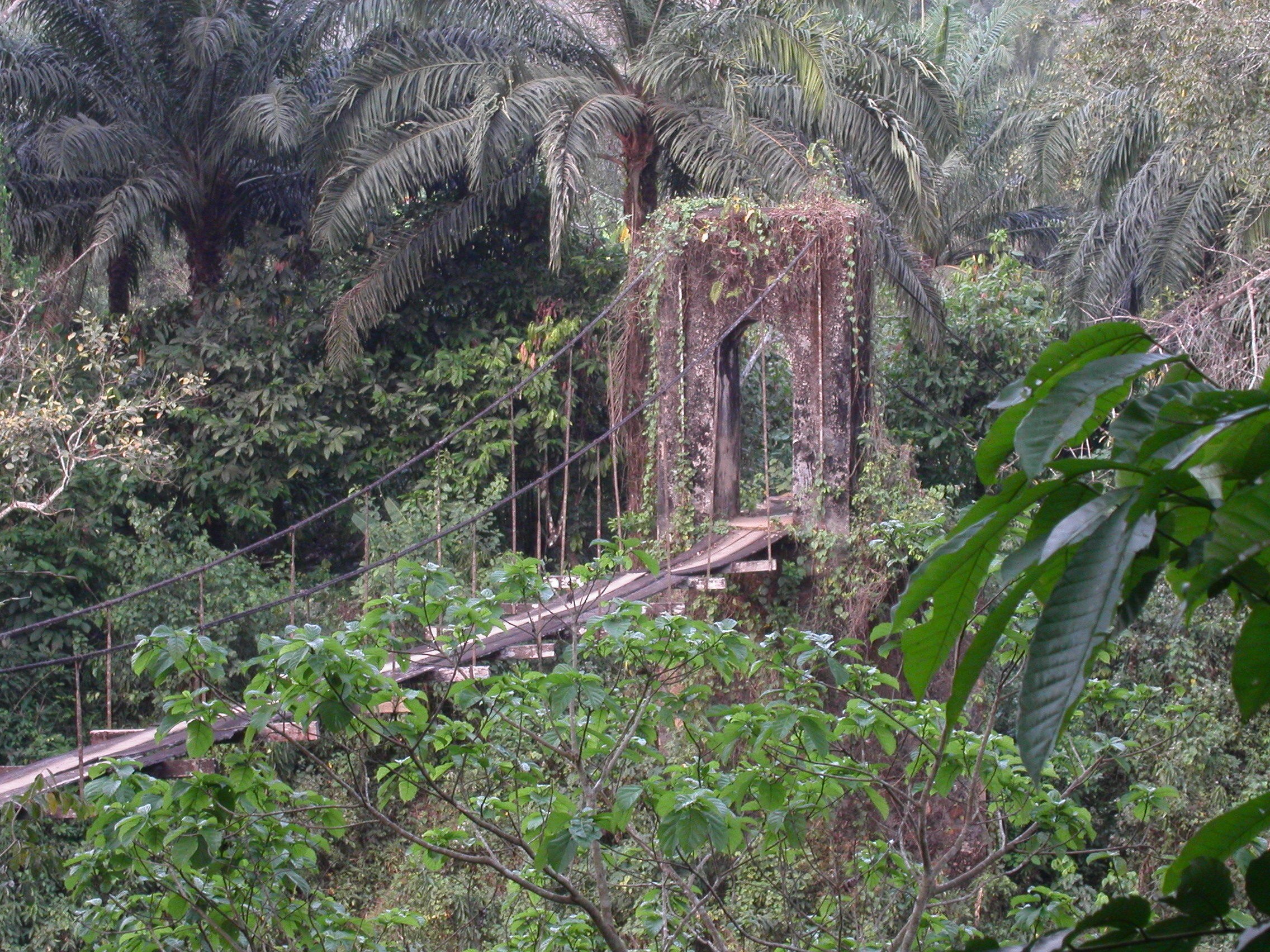 The old bridge in Mamfe, Cameroon, built during german colonisation time (before world war 1). It is still in use but I did not dare walk it. River Cross underneath with hippos and crocodiles.